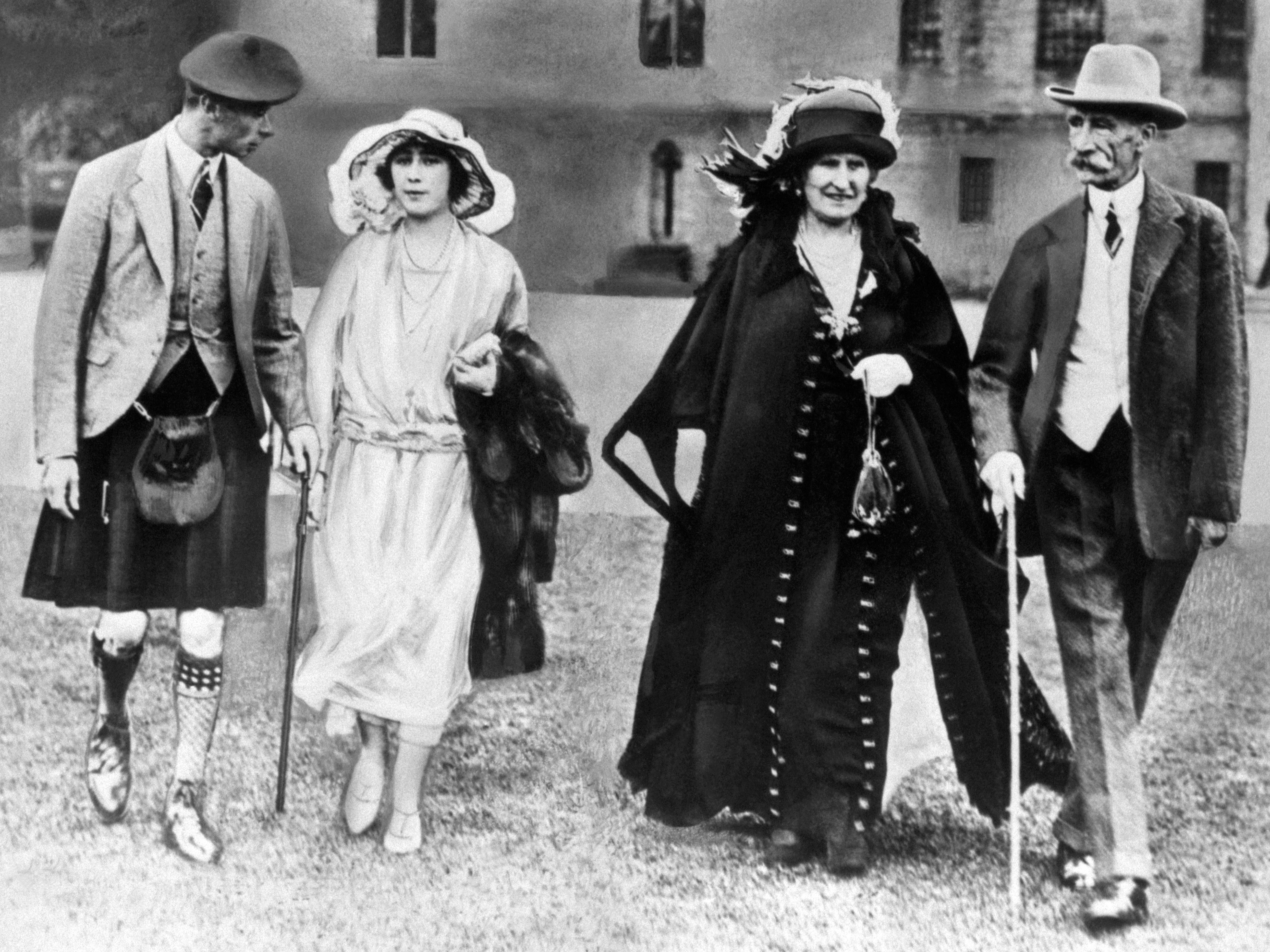 Lady Elizabeth Bowes-Lyons (the Queen Mum) with the Duke of York and her parents, the Earl and Countess of Strathmore and Kinghorne